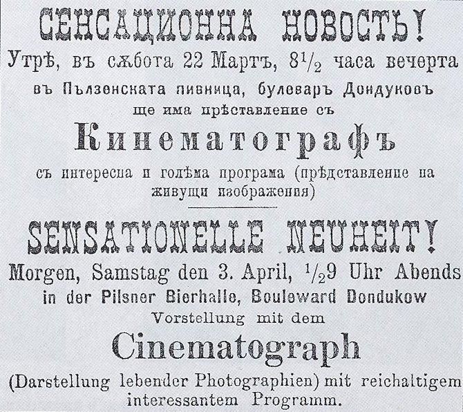 Announcement for the first movie shown in Sofia, Bulgaria